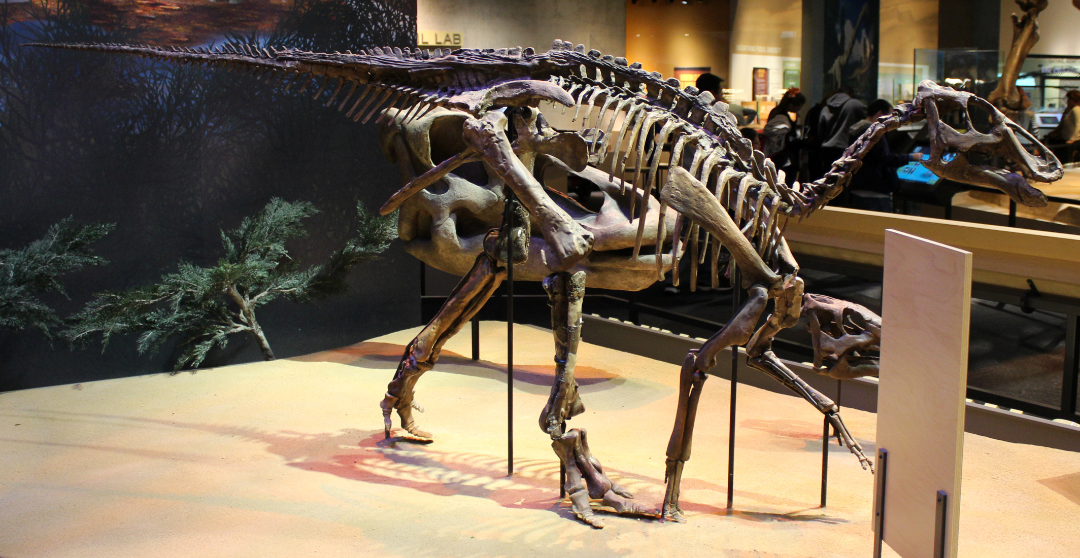 Juvenile Ugrunaaluk (formerly Edmontosaurus sp.), from the Prince Creek Formation